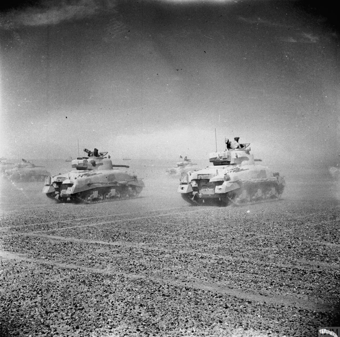 Sherman tanks of the Eighth Army move across the desert at speed as the Axis forces begin to retreat from El Alamein.